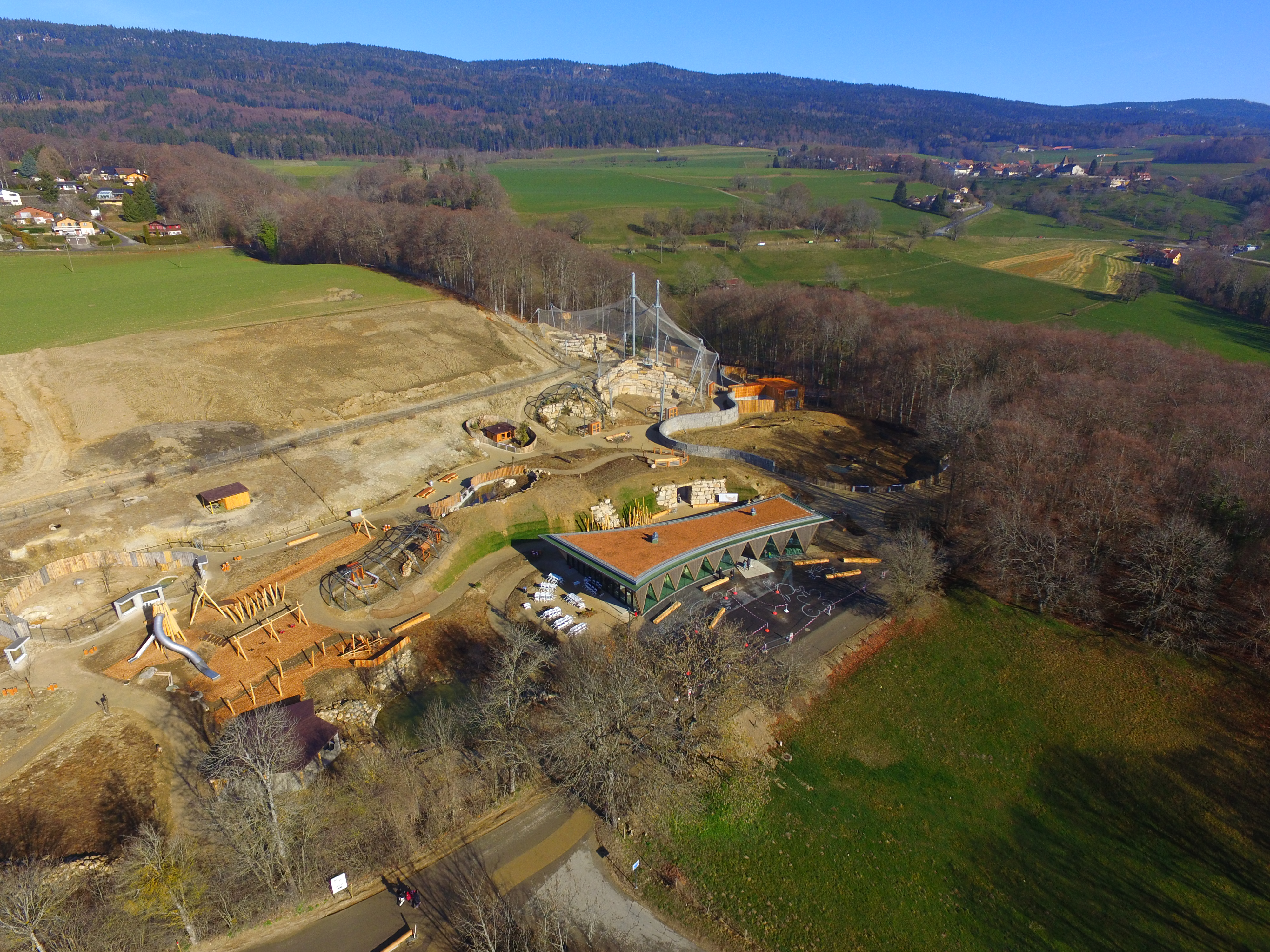 Zoo la Garenne, aerial view